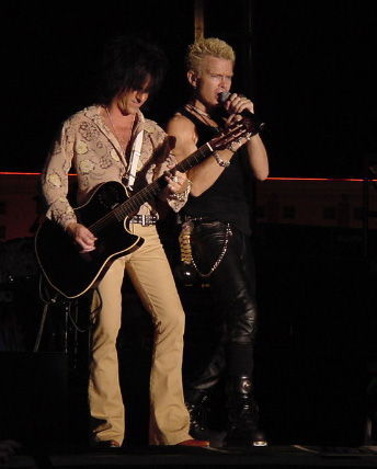 Billy Idol and Steve Stevens performing at Sam's Town Casino in Tunica, Mississippi